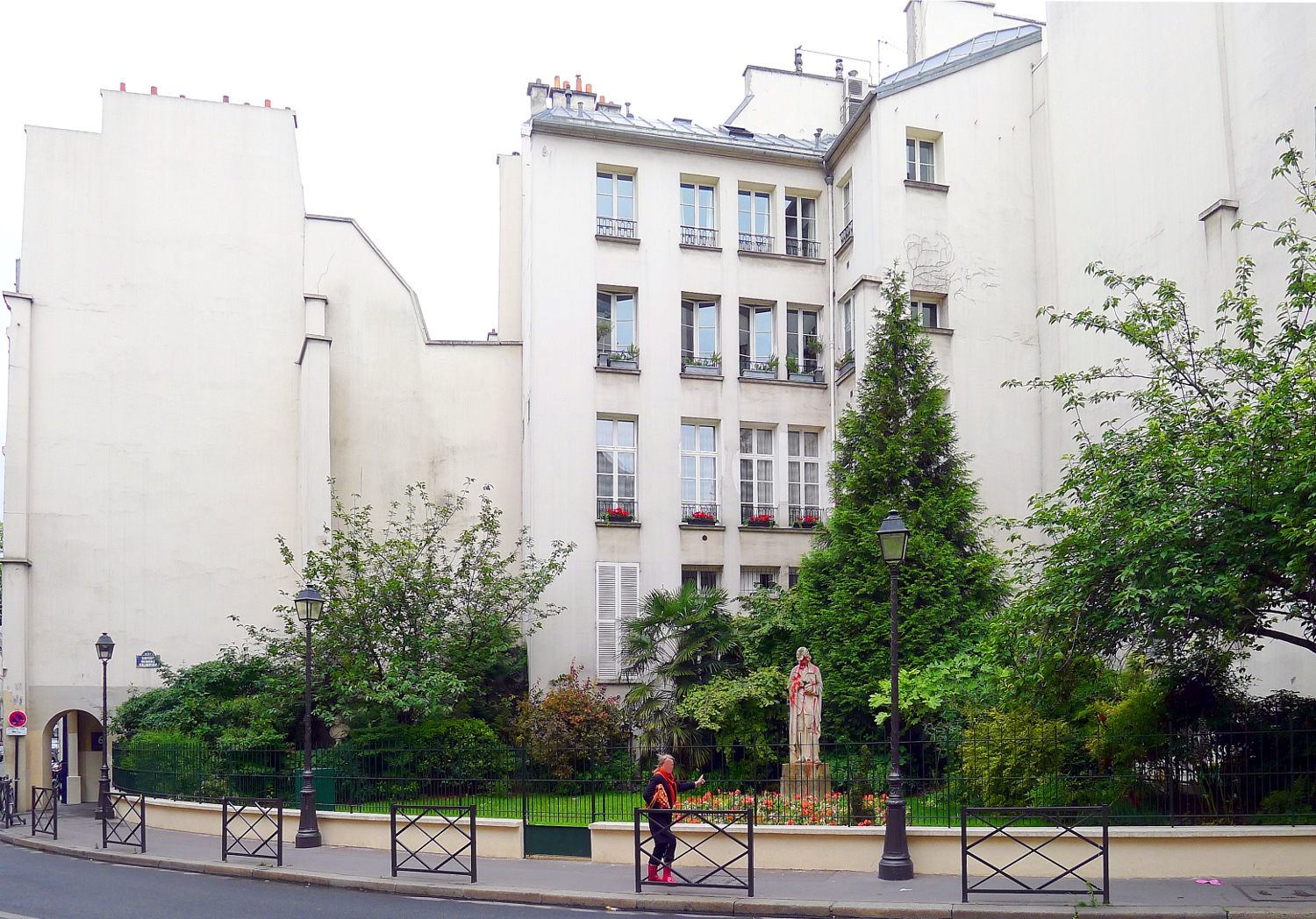 Honoré Champion square - Paris